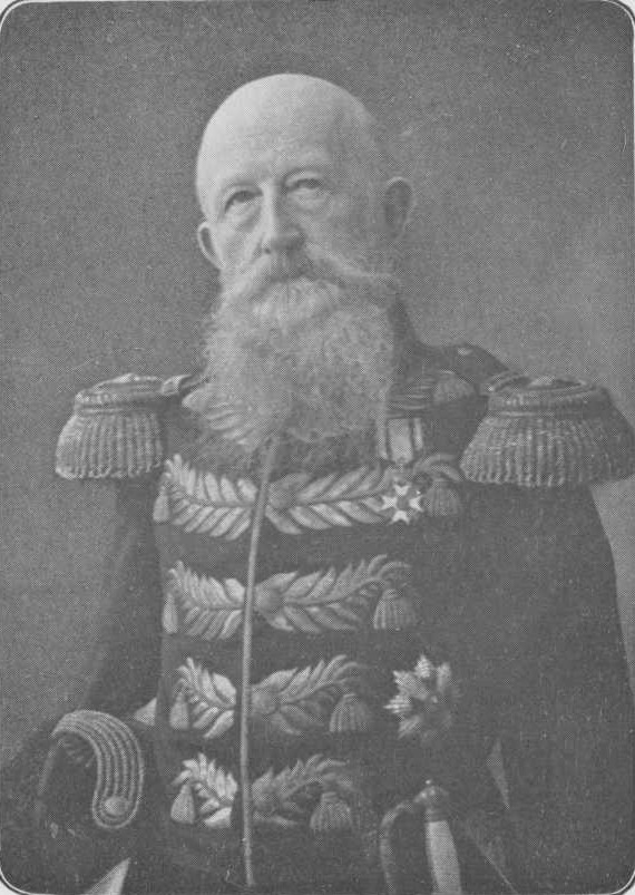 name Jhr.H. P. C. BOSCH VAN DRAKESTEIN VAN NIEUW-AMELISWEERD. political affiliationPolitical Catholicism